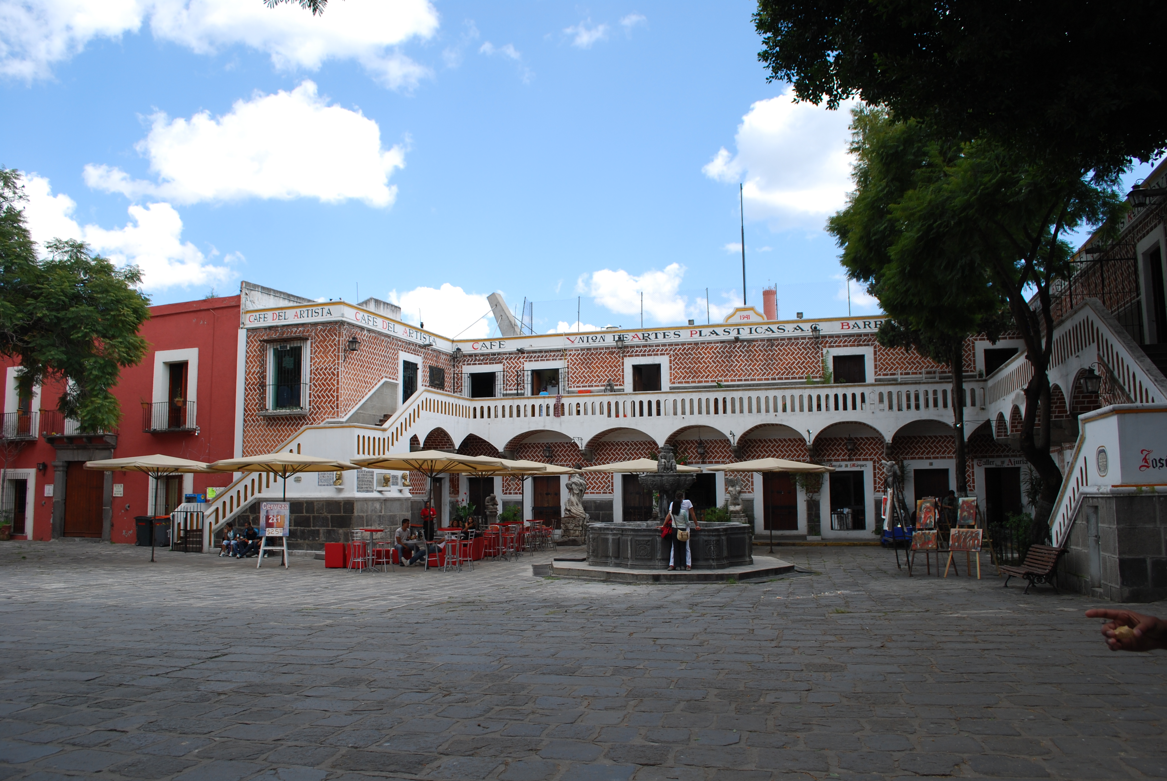 Cafe del Artista and plaza in the Barrio del Artista in Puebla, Mexico